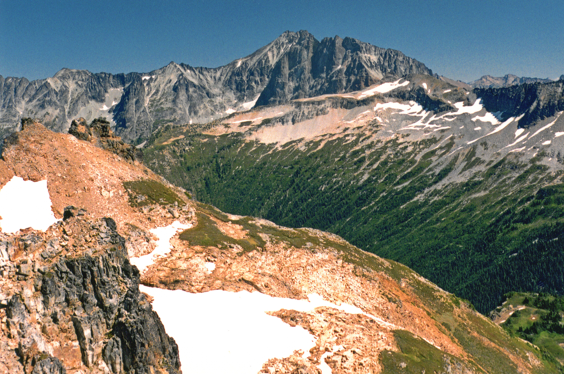 The view from Plummer Mountain looking northeast in the direction of Bonanza Peak. North Cascades.